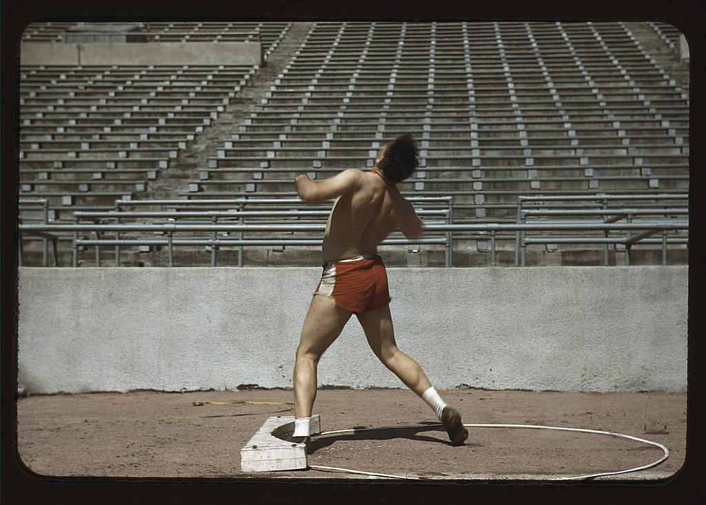 Shot putter, University of Nebraska [1942] Date based on LC-USF35-266. Title from FSA or OWI agency caption. Transfer from U.S. Office of War Information, 1944. Repository: Library of Congress, Prints and Photographs Division, Washington, D.C. 20540 USA, Part Of: Farm Security Administration - Office of War Information Collection 11671-28 (DLC) 93845501 Higher resolution image is available (Persistent URL): Call Number: LC-USF35-270